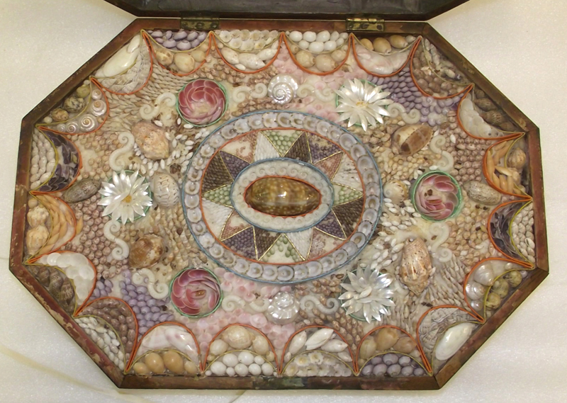 This sailor's valentine was made ca 1875 and is the collection at The Mariners' Museum in Newport News, VA.